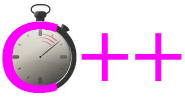 A stopwatch with superimposed the text "C++". It is proposed to be used for the cover of the wikibook "Optimizing C++".